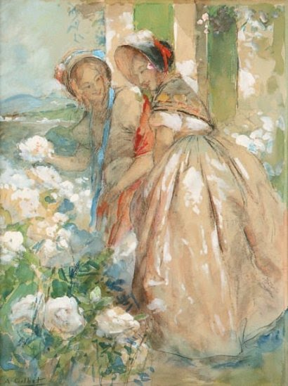 Painting by Antoine Calbet